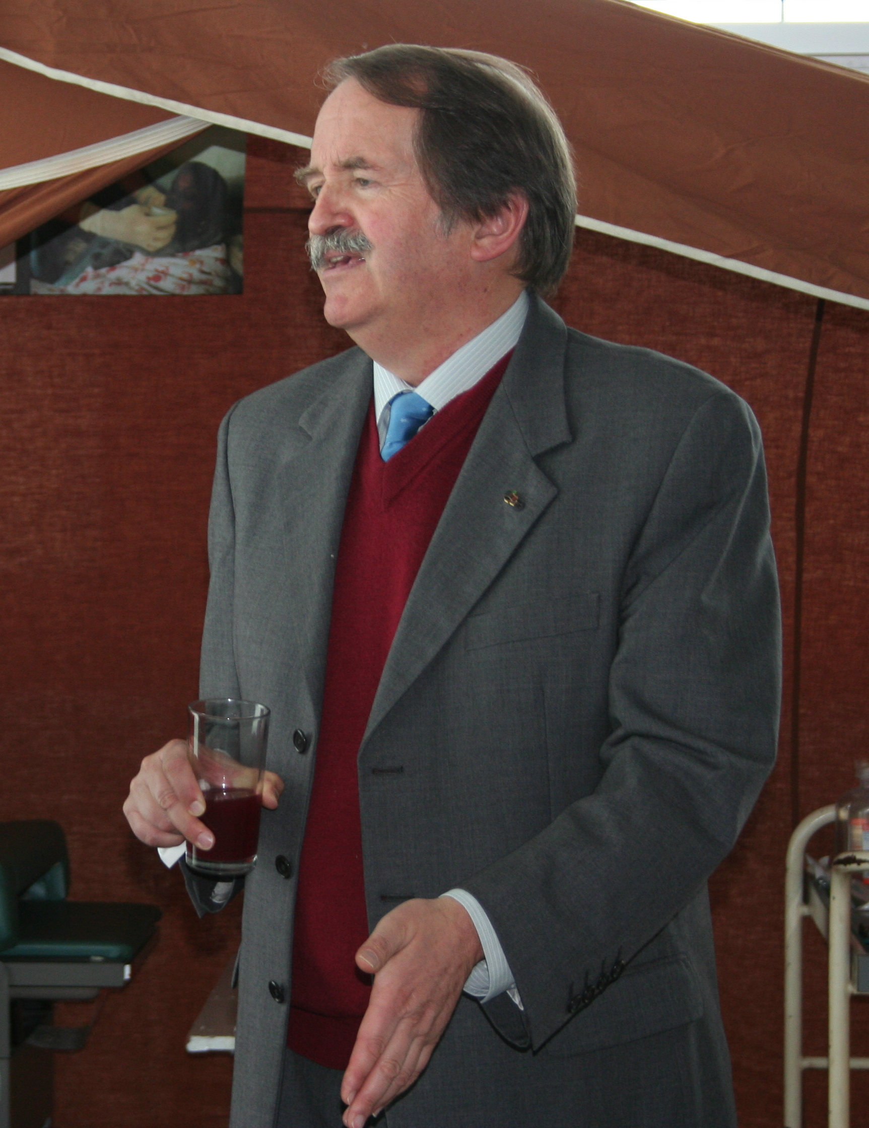 Duarte Pio João Miguel Gabriel Rafael de Bragança, pretender to the throne of Portugal.